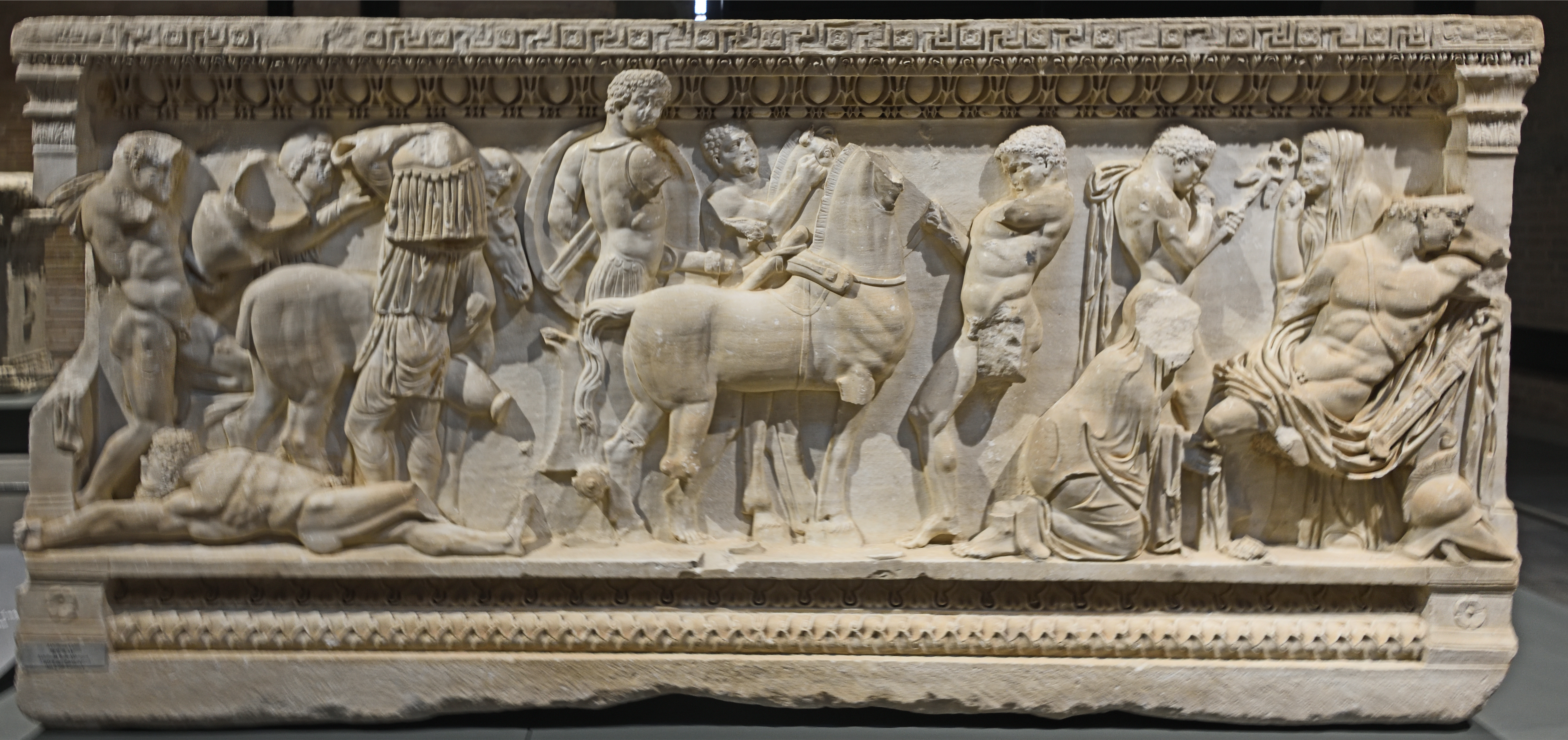 This sarcophagus is of the second group of Achilles tombs of Attica type from the Roman Imperial Period. The left and short façade an its front façade are allocated to the figures. There is a sphinx in the right short face and opposing Gryphons on its rear long façade. Although the work bears the characteristics of the Late Antonines period, it may be dated to between AD 170 and 190.